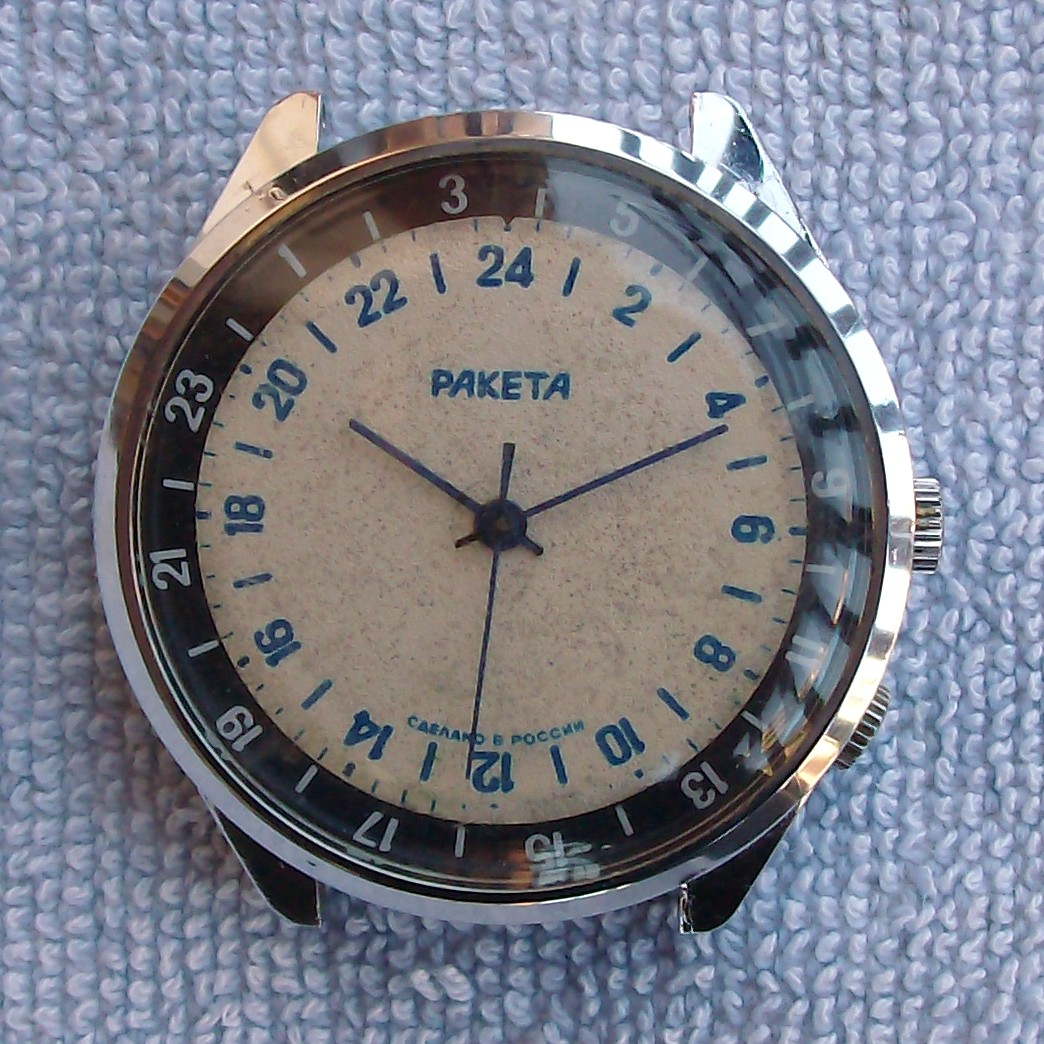 A Raketa wristwatch with 24-hours dial